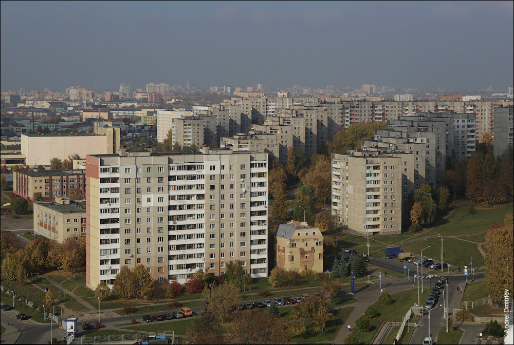 Apartment building in Minsk, Belarus